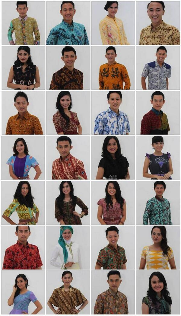 Finalis Putra Putri Batik Nusantara 2013